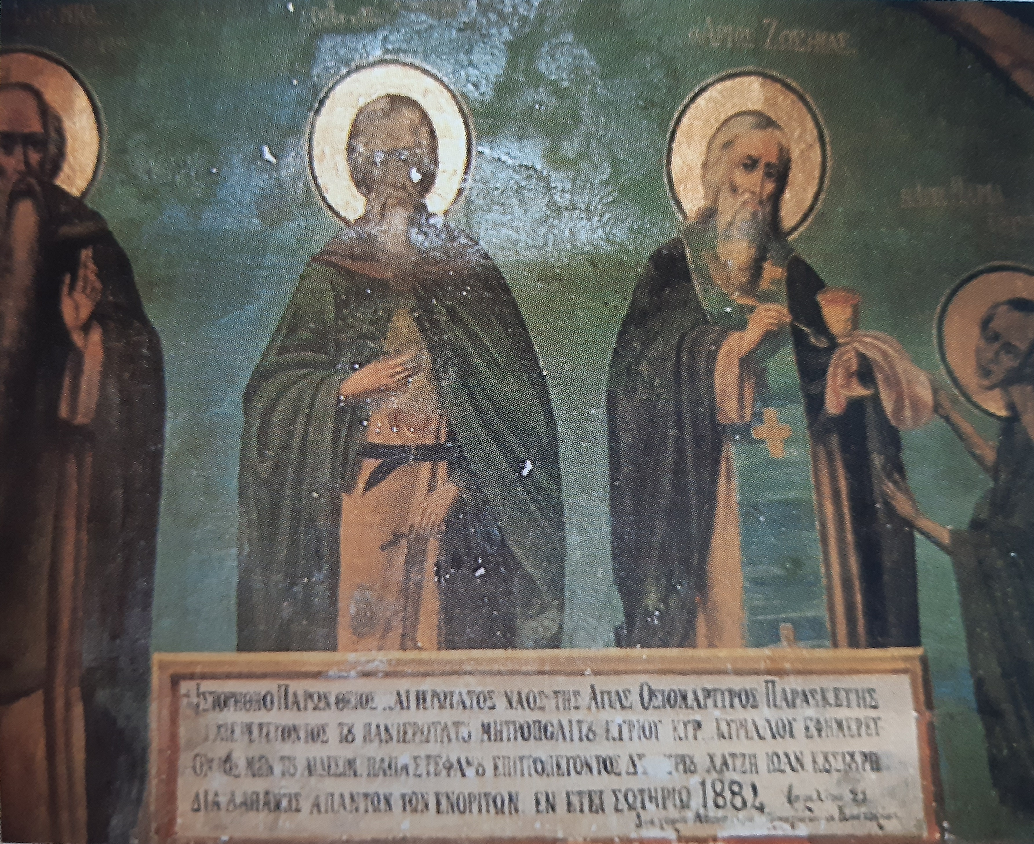 Saint Paraskevi of Ikonomos Church Inscription and Saints Euthymius, Alypius and Zosimas